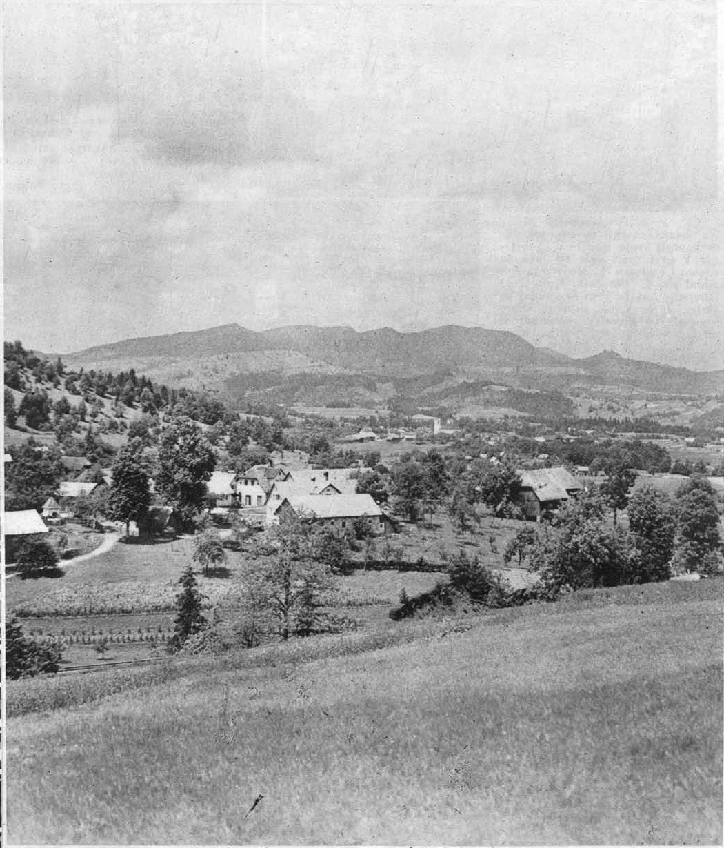 Pogled na Dolnje Retje, v ozadju Velike Lašče